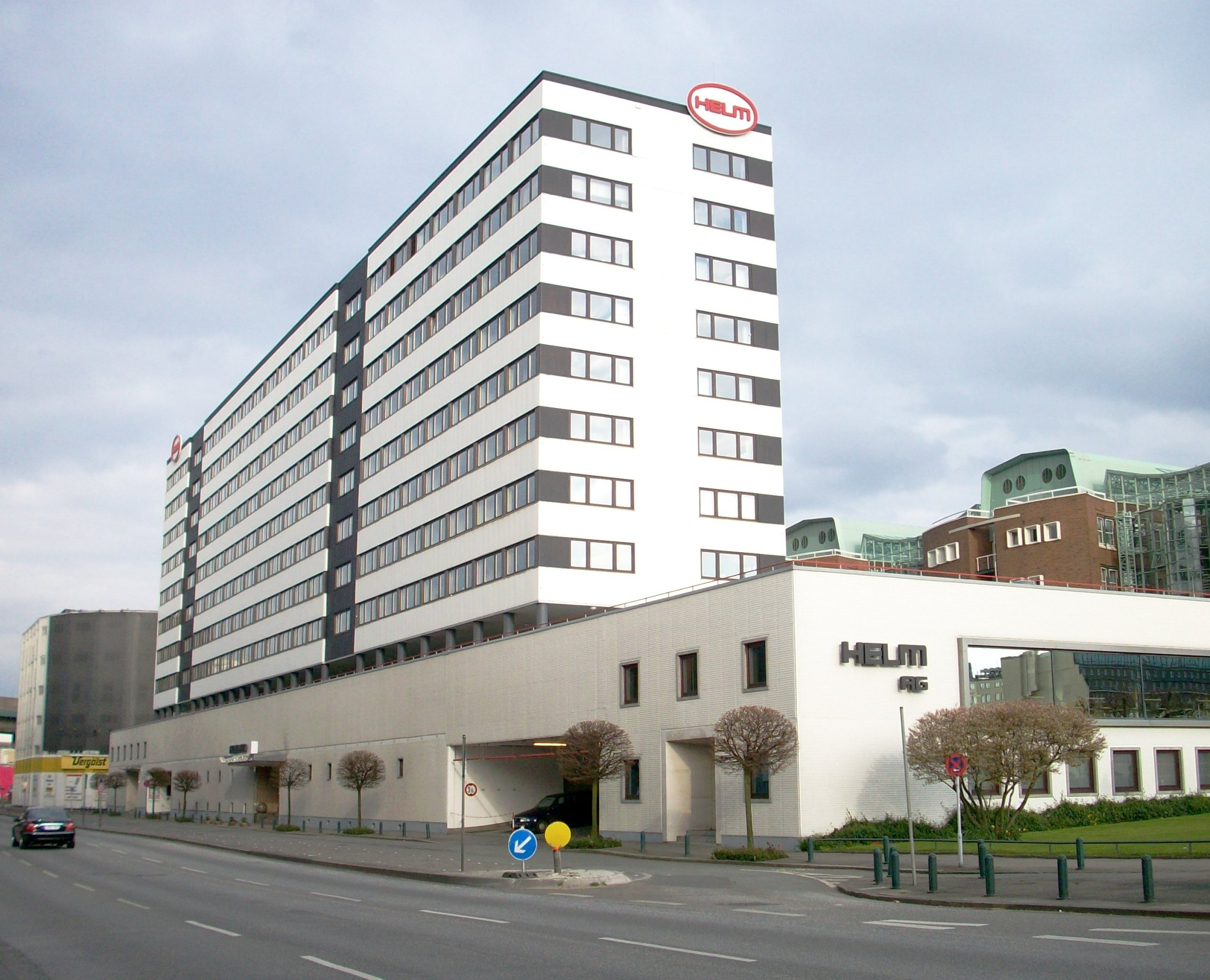 Headquarters of HELM AG in Hamburg, Germany.